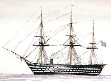 Sketch of HMS Marlborough (1855)